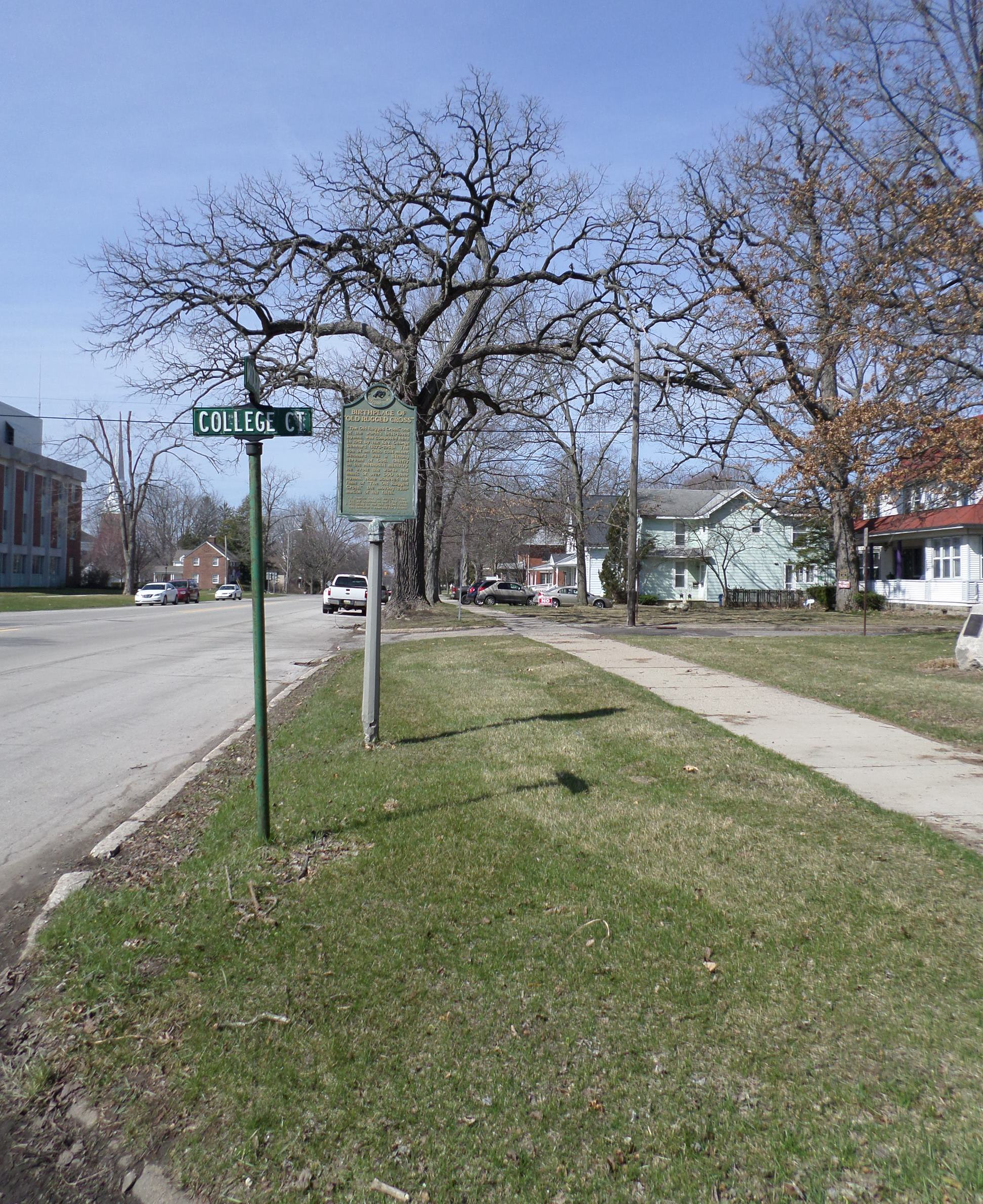 A Michigan State Historic Marker honoring the composition of "The Old Rugged Cross", located at 1101 E Michigan Ave, Albion, MI.